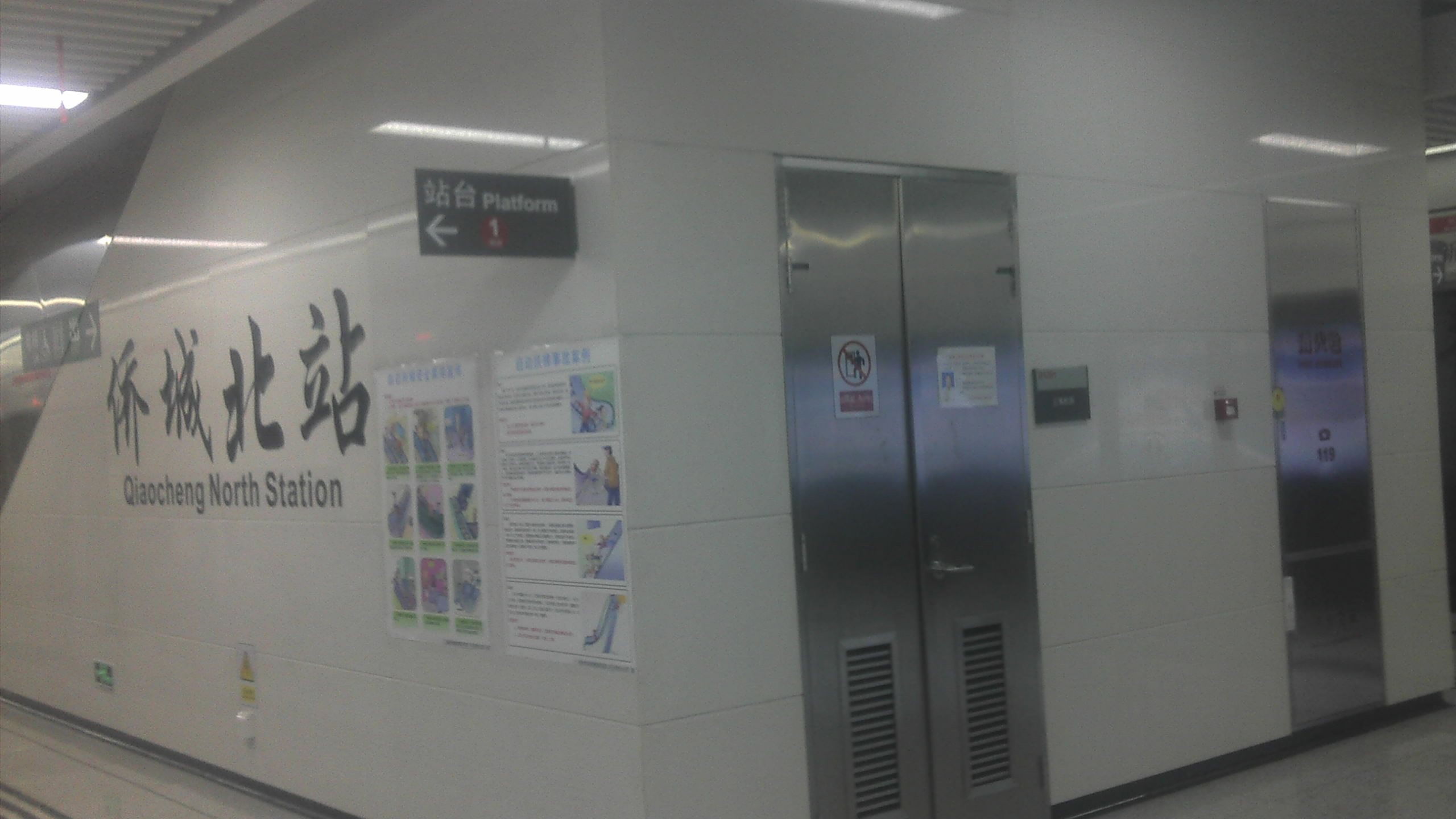 This photo was taken as Oct 22, 2011.